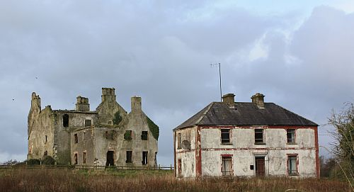 Rappa castle and grounds